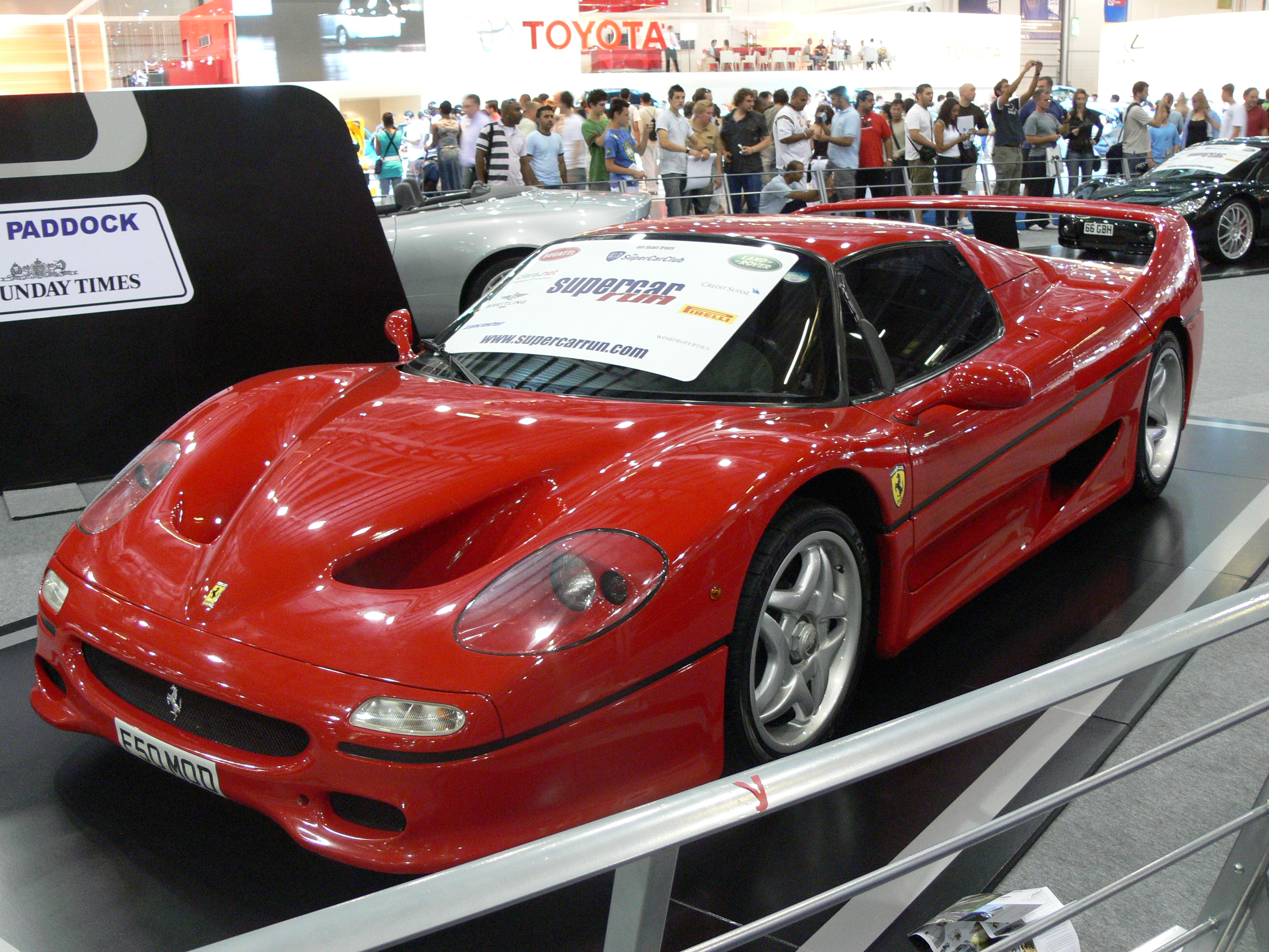 Pictures taken at the British Motor Show 2006, Excel Centre, LondonP1060403.JPG